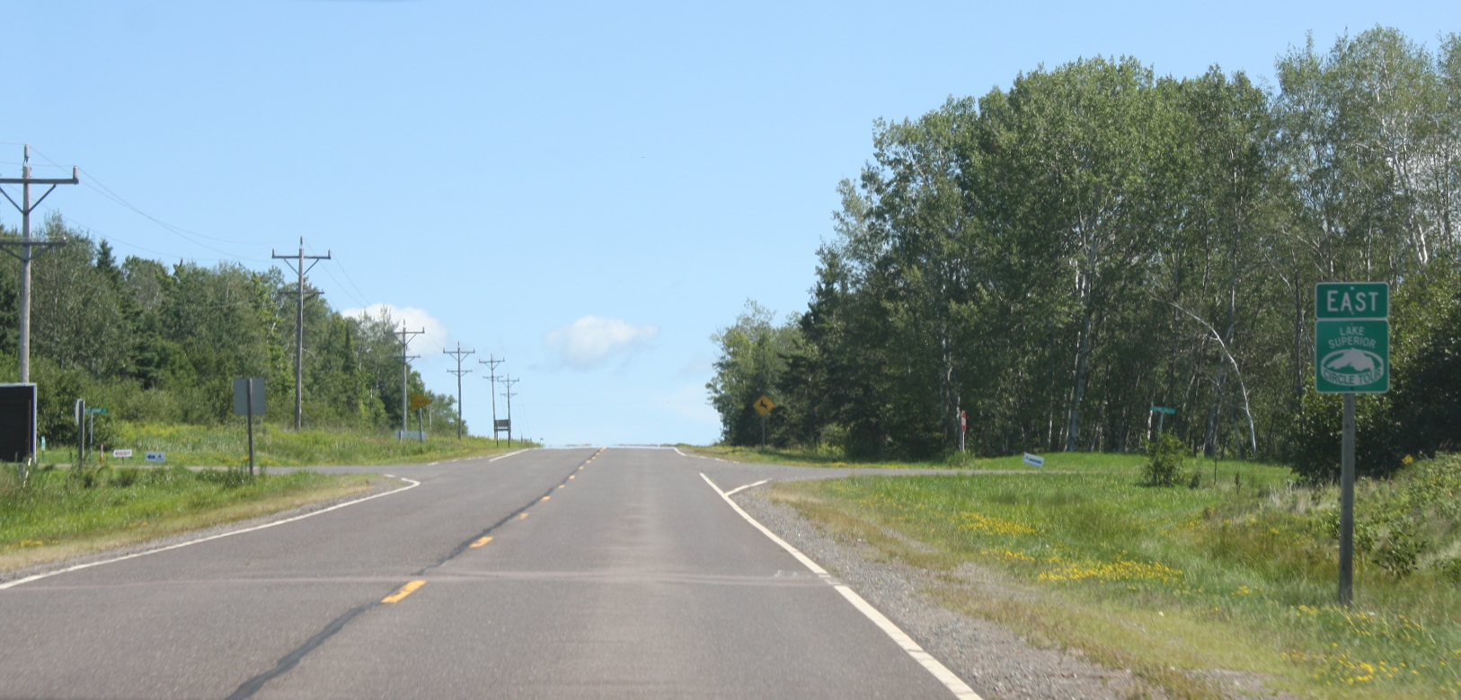 A sign for the Lake Superior Circle Tour while traveling eastbound about 10 minutes west of Cornucopia, Wisconsin on Wisconsin Highway 13.